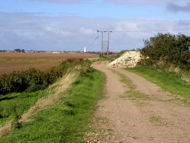 The Hull to Withernsea Railway west of Hollym, East Riding of Yorkshire, England.This is the view just SSW of Withernsea on the old track bed. The railway was closed to passengers in about October 1964 after being the victim of Dr. Beeching's cuts. The trackbed is now mainly used for farmland access. Nearer Patrington, parts of it are no more and the land has been transformed once again into farmland.